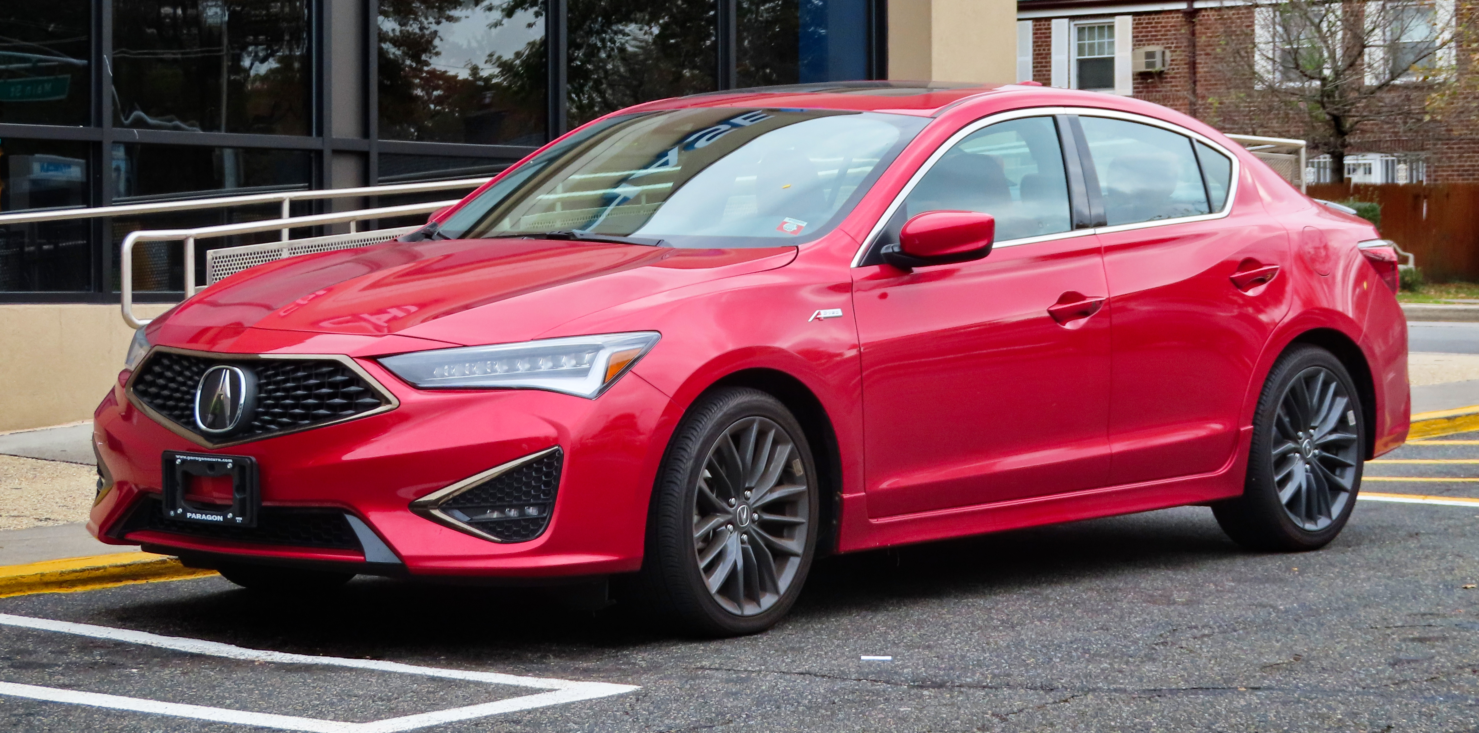 A 2019 Acura ILX A-Spec photographed in Kew Gardens Hills, Queens, New York, USA